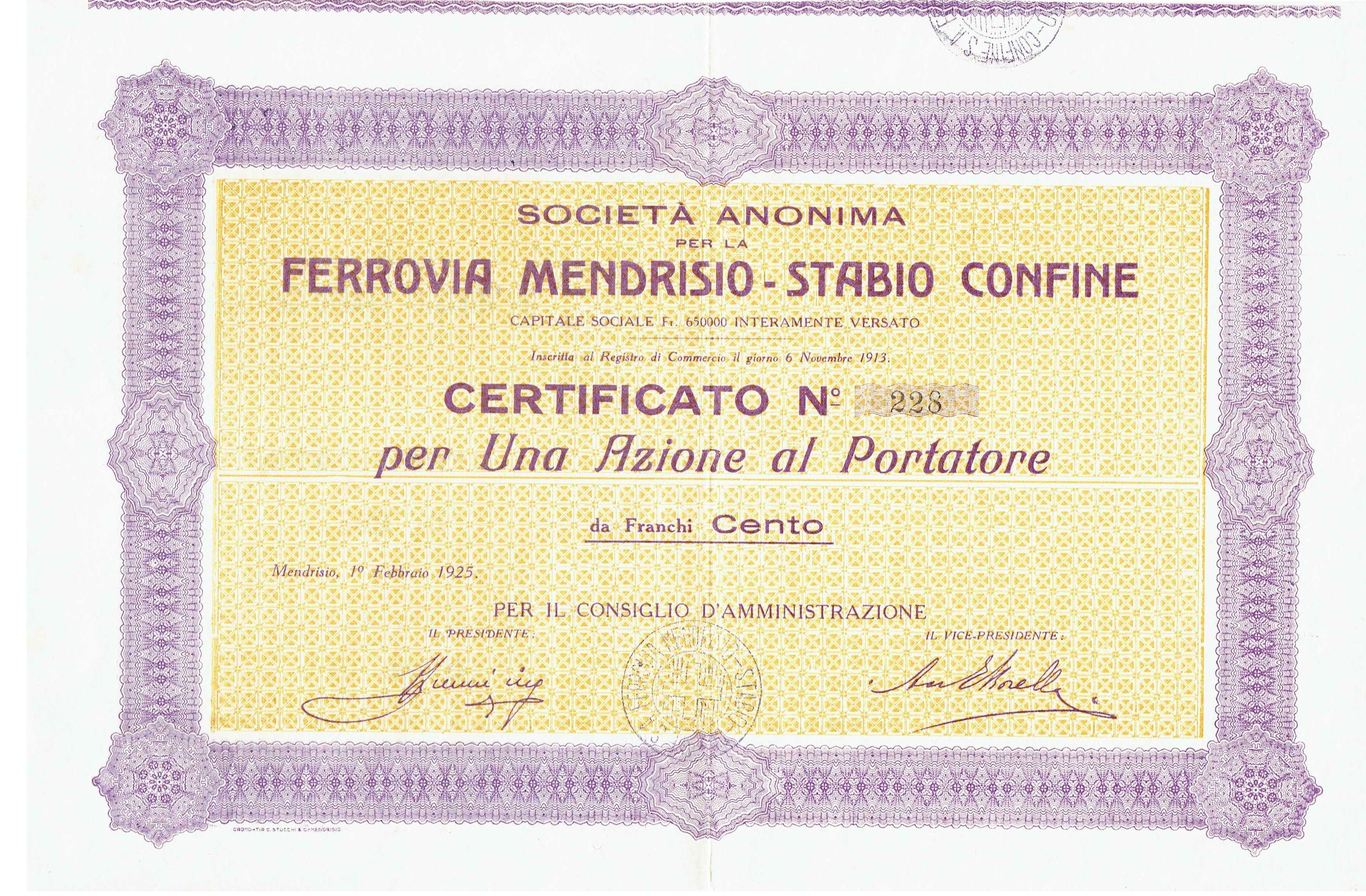 Share of the S. A. per la Ferrovia Mendirsio-Stabio Confine, issued 1. February 1925